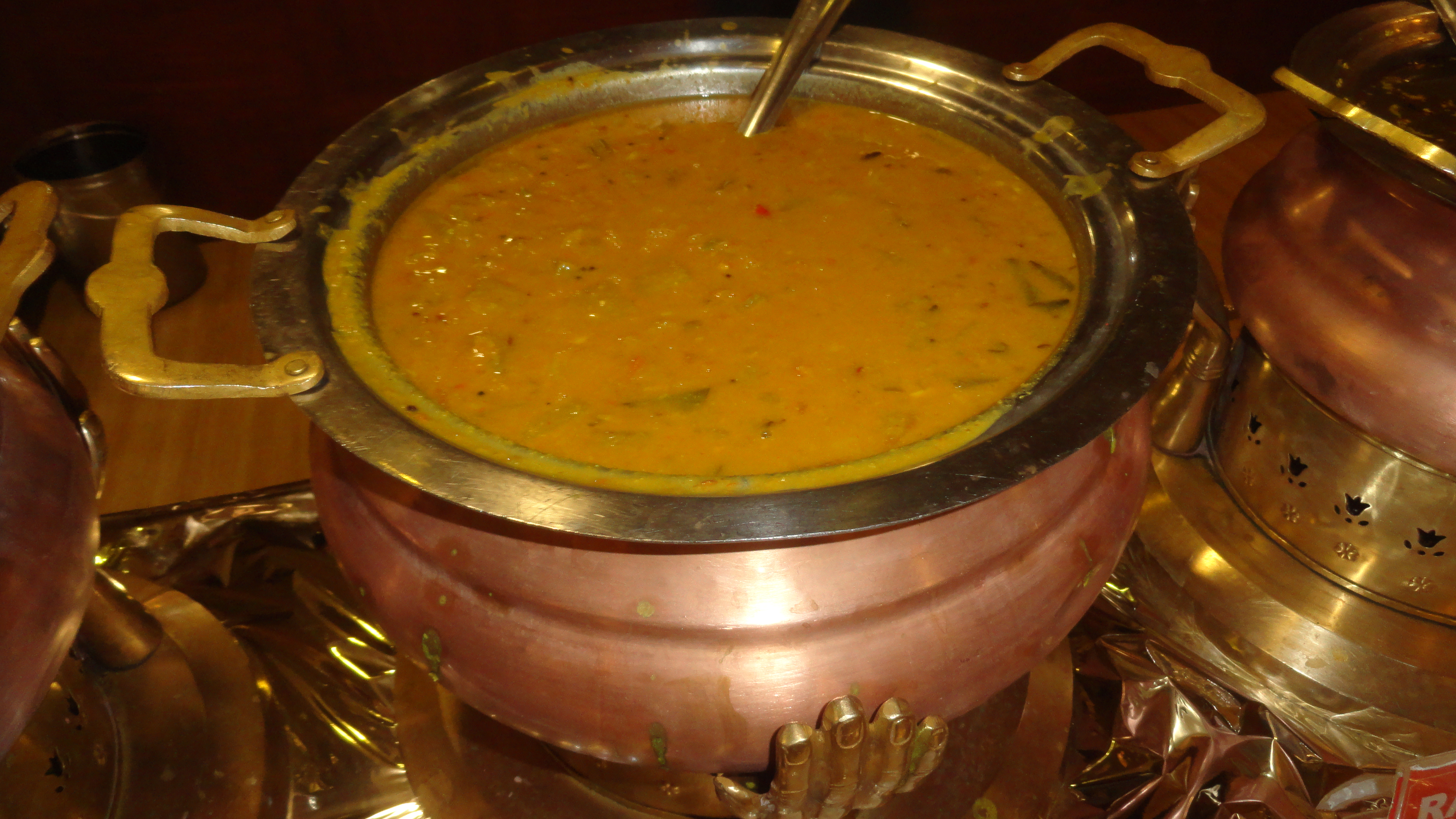 Sambaru is very common curry to mix in the cooked rice